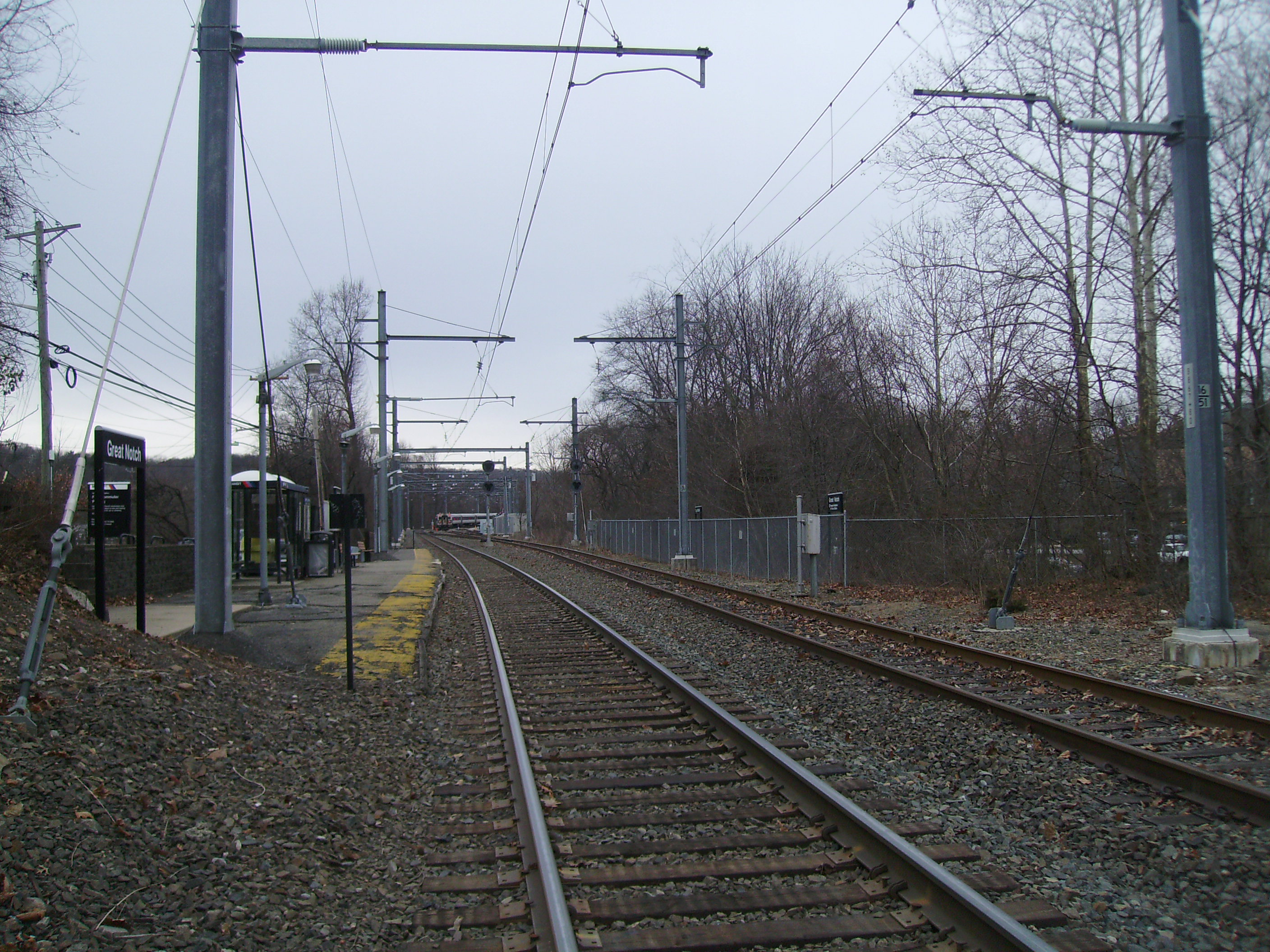 The to-be-closed Great Notch New Jersey Transit station in Great Notch, New Jersey, a portion of Little Falls.